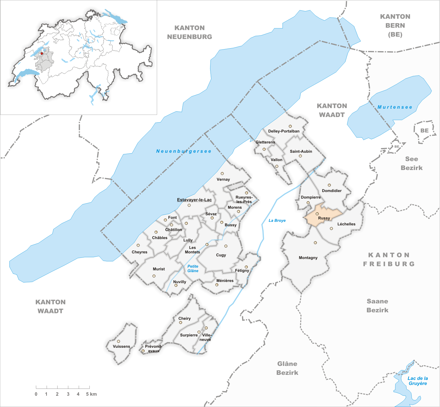 Municipality Russy